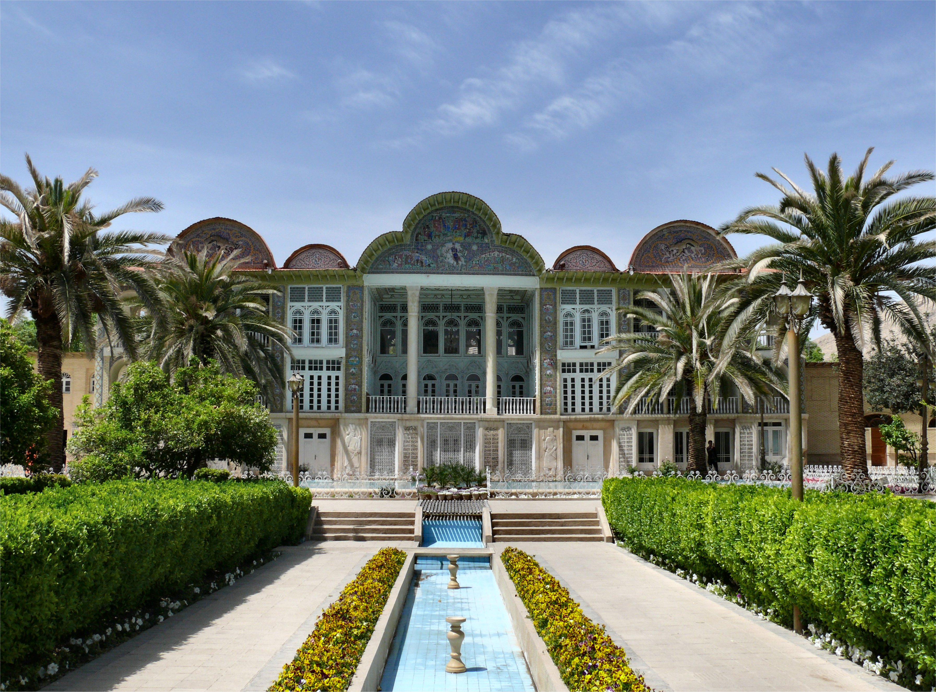 Bagh-e Eram